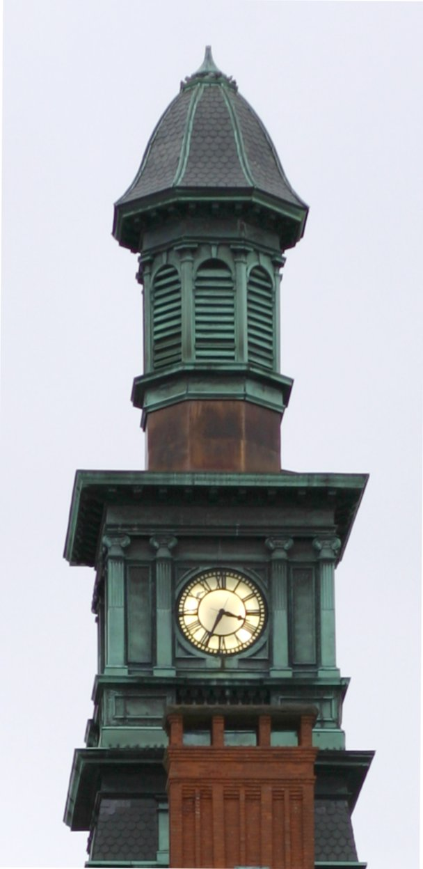 The clock tower of the Willimantic town hall